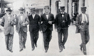 The founding members of Argentine Club Atlético Lanús.